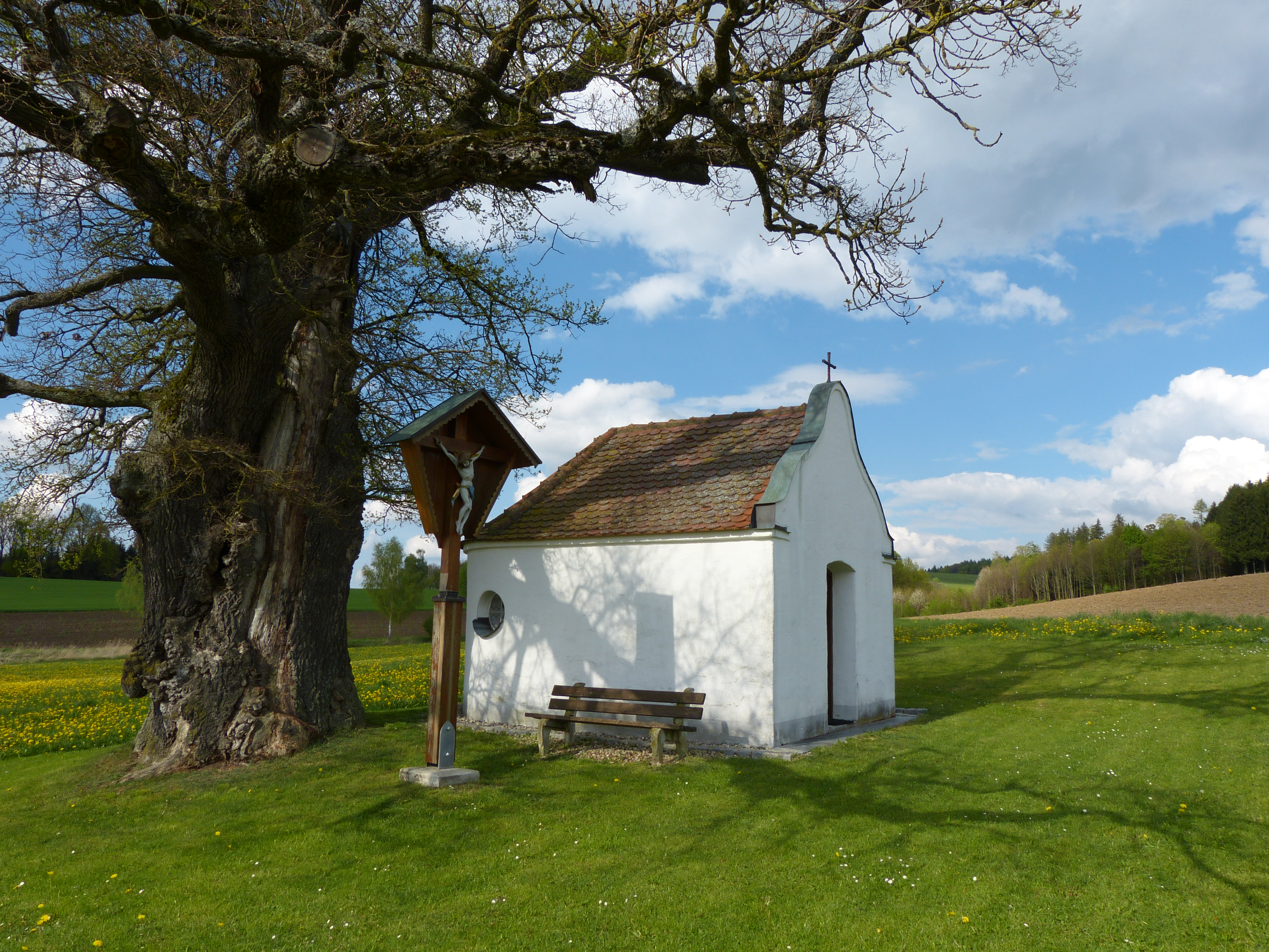 Chapel St. Antonius in Haselbach, Eppishausen, Landkreis Unterallgäu, Bavaria